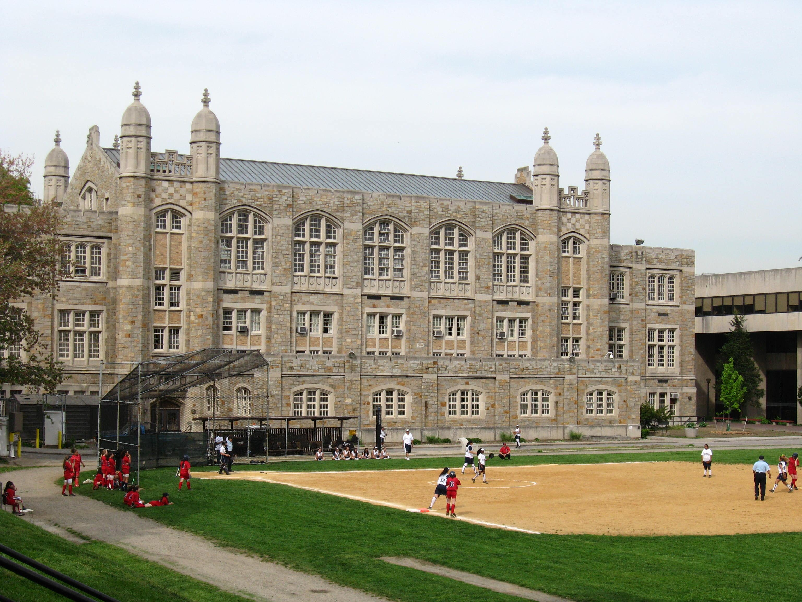 Looking northeast at girl baseball game and Old Gymnasium of Lehman College, Bronx, on a cloudy afternoon in spring.